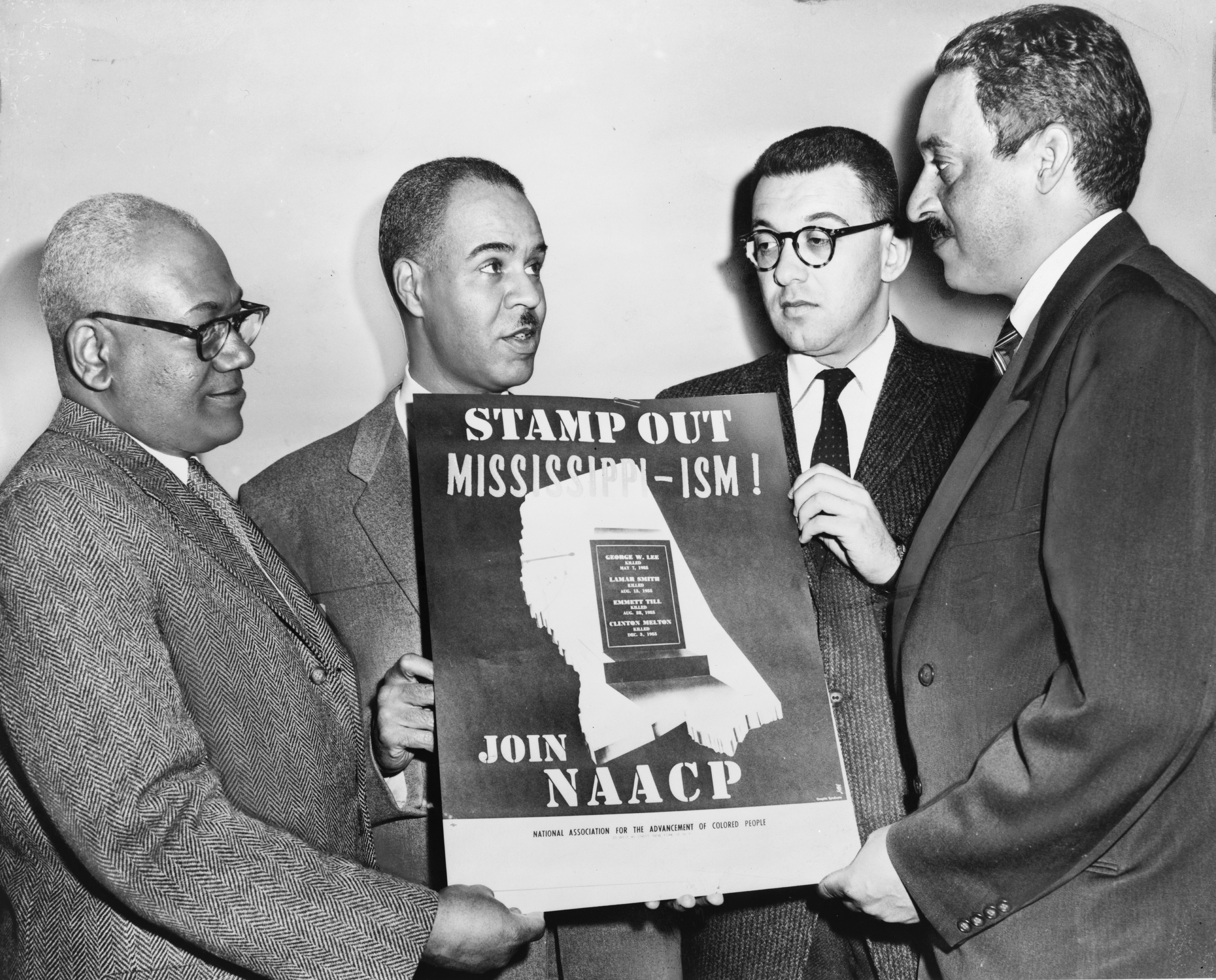 Holding a poster against racial bias in Mississippi in 1956, are four of the most active leaders in the NAACP movement, from left: Henry L. Moon, director of public relations; Roy Wilkins, executive secretary; Herbert Hill, labor secretary Thurgood Marshall, special counsel. World Telegram & Sun photo by Al. Ravenna.